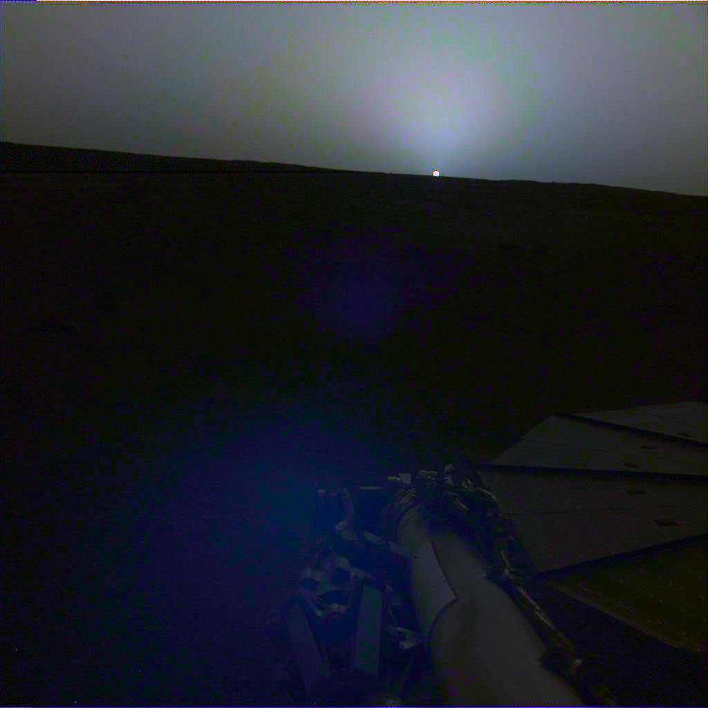 PIA23202: InSight Images a Sunset on Mars NASA's InSight lander used the Instrument Deployment Camera (IDC) on the end of its robotic arm to image this sunset on Mars on April 25, 2019, the 145th Martian day, or sol, of the mission. This was taken around 6:30 p.m. Mars local time. Included here are the "raw" versions of the image and the color-corrected version; it's easier to see some details in the raw version, but the latter more accurately shows the image as the human eye would see it. NASA's Jet Propulsion Laboratory manages InSight for the agency's Science Mission Directorate. InSight is part of NASA's Discovery Program, managed by the agency's Marshall Space Flight Center in Huntsville, Alabama. Lockheed Martin Space in Denver built the InSight spacecraft, including its cruise stage and lander, and supports spacecraft operations for the mission. A number of European partners, including France's Centre National d'Études Spatiales (CNES) and the German Aerospace Center (DLR), are supporting the InSight mission. CNES provided the Seismic Experiment for Interior Structure (SEIS) instrument to NASA, with the principal investigator at IPGP (Institut de Physique du Globe de Paris). Significant contributions for SEIS came from IPGP; the Max Planck Institute for Solar System Research (MPS) in Germany; the Swiss Federal Institute of Technology (ETH Zurich) in Switzerland; Imperial College London and Oxford University in the United Kingdom; and JPL. DLR provided the Heat Flow and Physical Properties Package (HP3) instrument, with significant contributions from the Space Research Center (CBK) of the Polish Academy of Sciences and Astronika in Poland. Spain's Centro de Astrobiología (CAB) supplied the temperature and wind sensors.